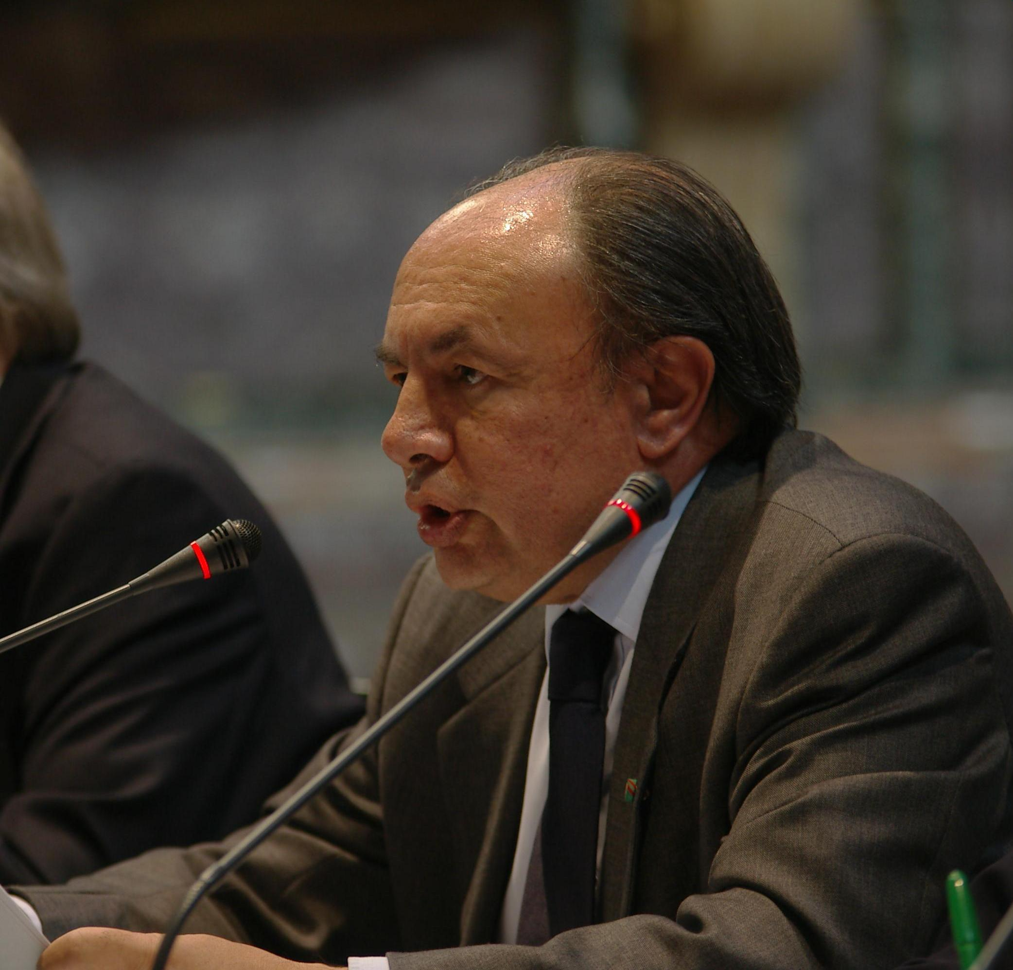 Fulvio Tessitore